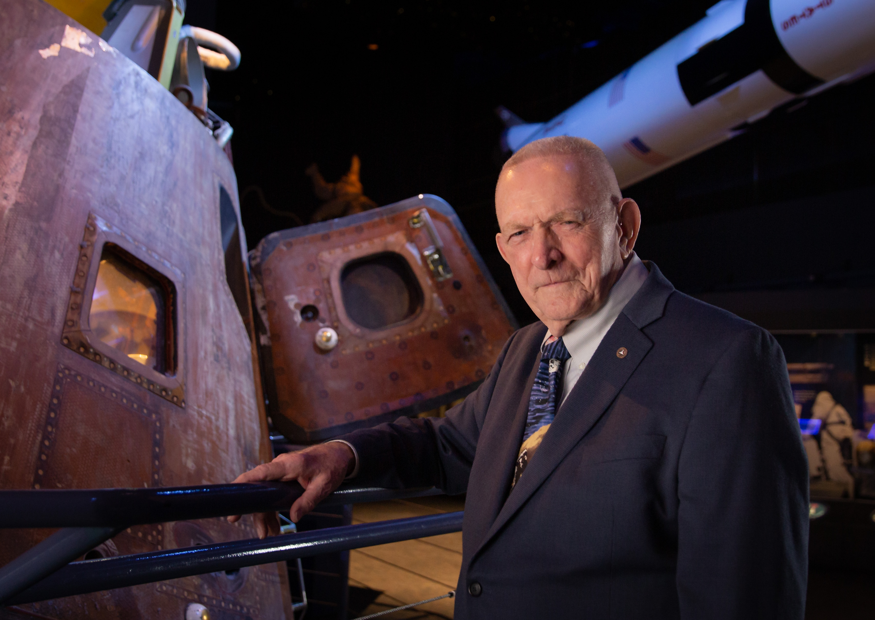 Retired NASA Flight Director and manager Gene Kranz poses for a portrait next to the Apollo 17 Command Module, Thursday, July 11, 2019 at Space Center Houston in Houston, Texas. Photo Credit: (NASA/Bill Ingalls)